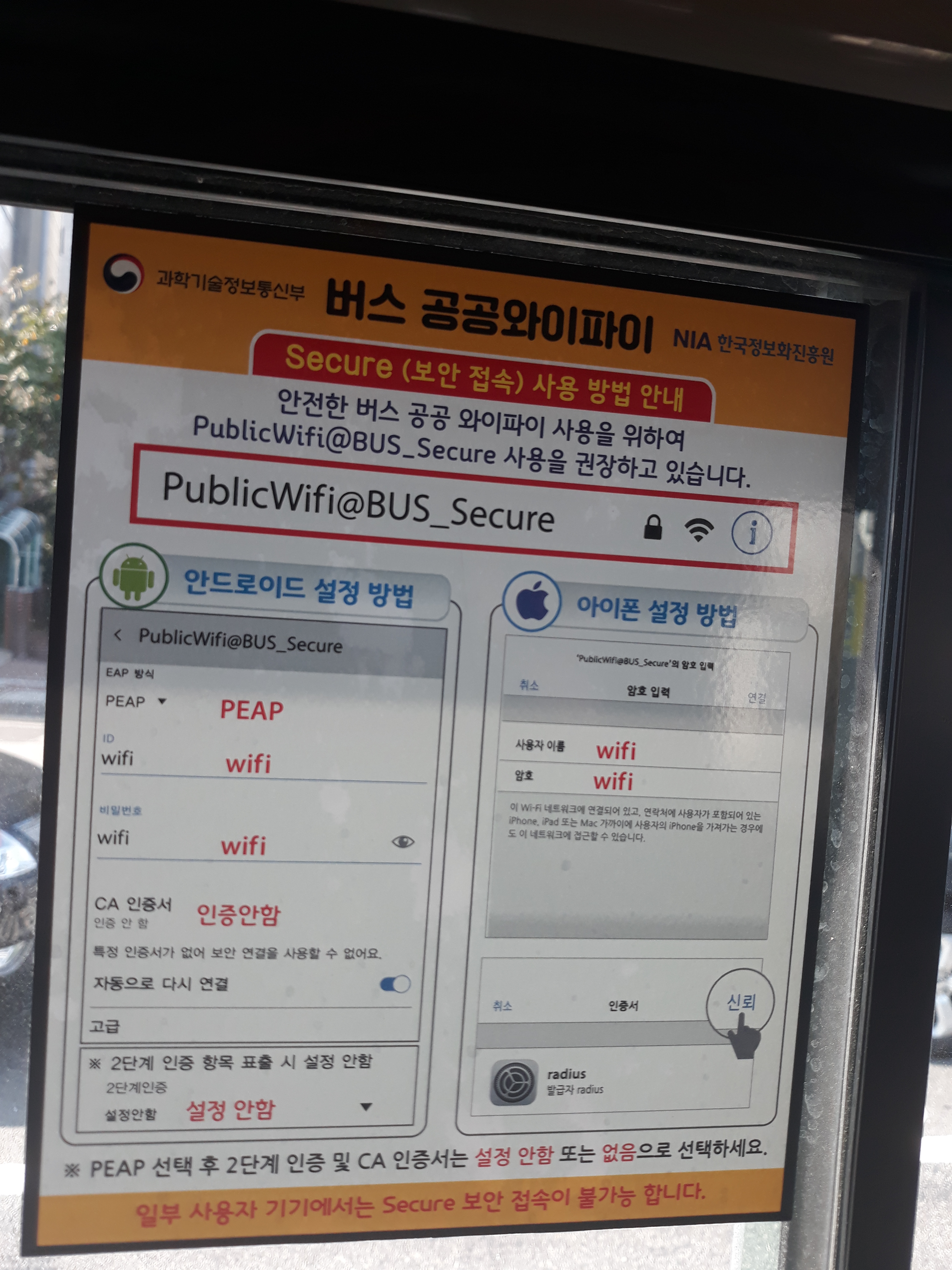 korea seoul bus wifi